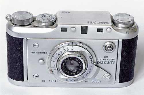 Public domain photograph, I made this photo myself